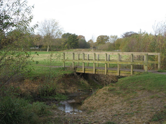 The River Ravensbourne and footbridge in Norman Park